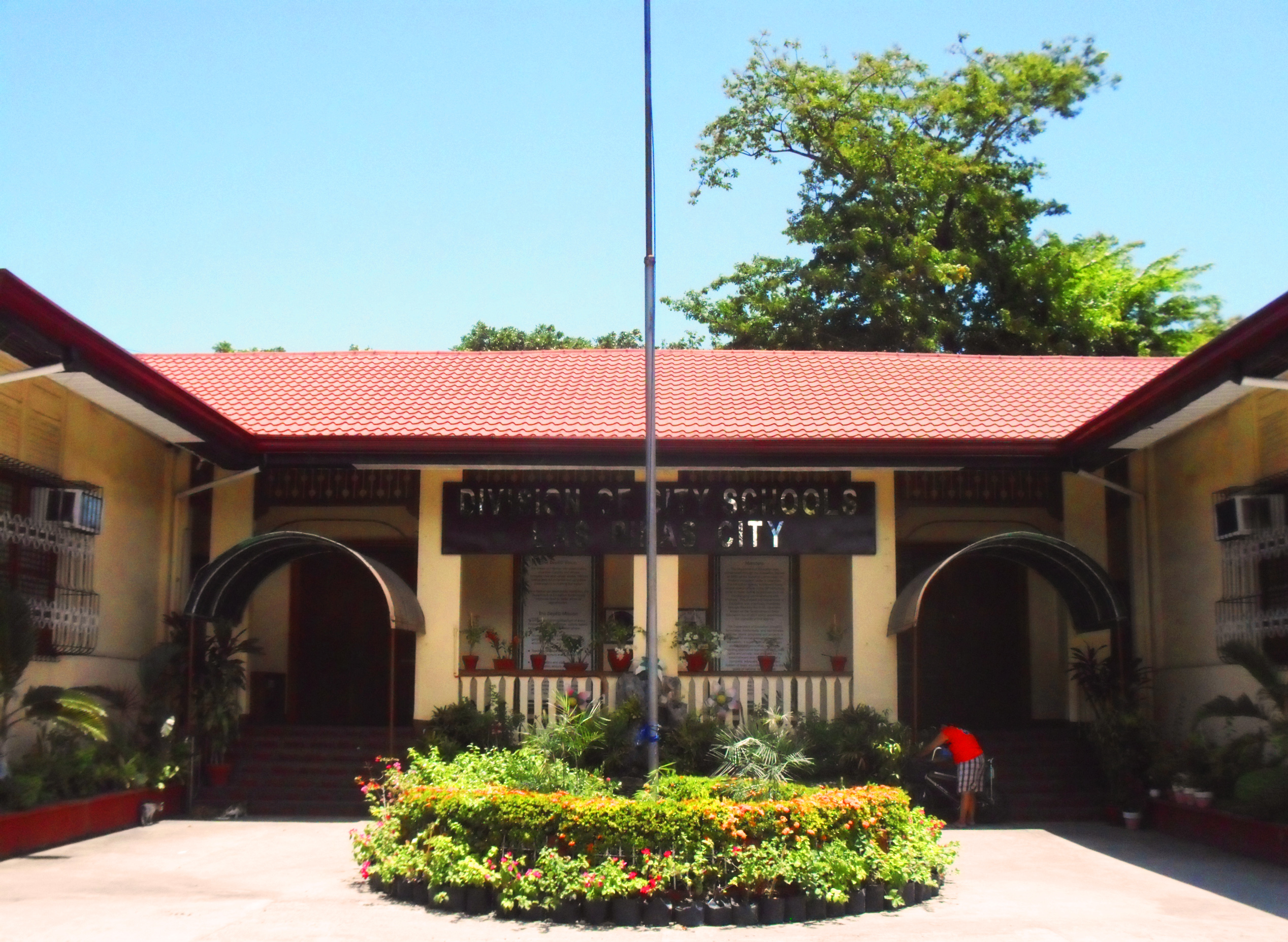 Front facade with additional elements